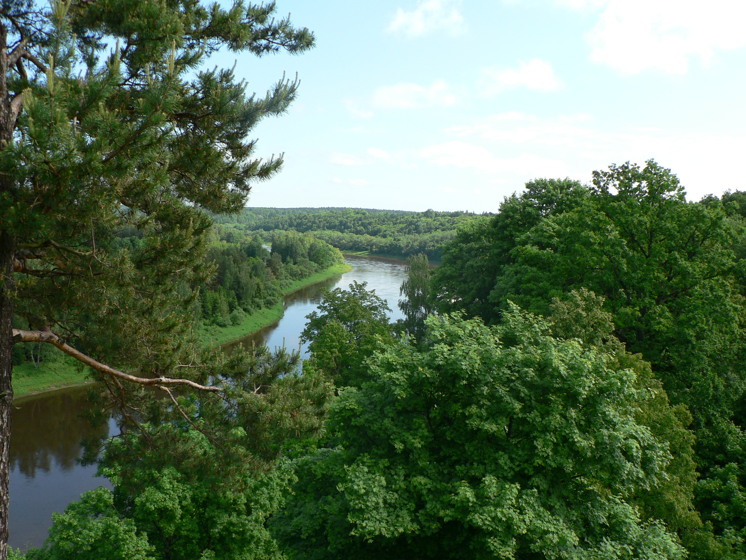 Neman bend in Punia, Lithuania. View from a hillfort.